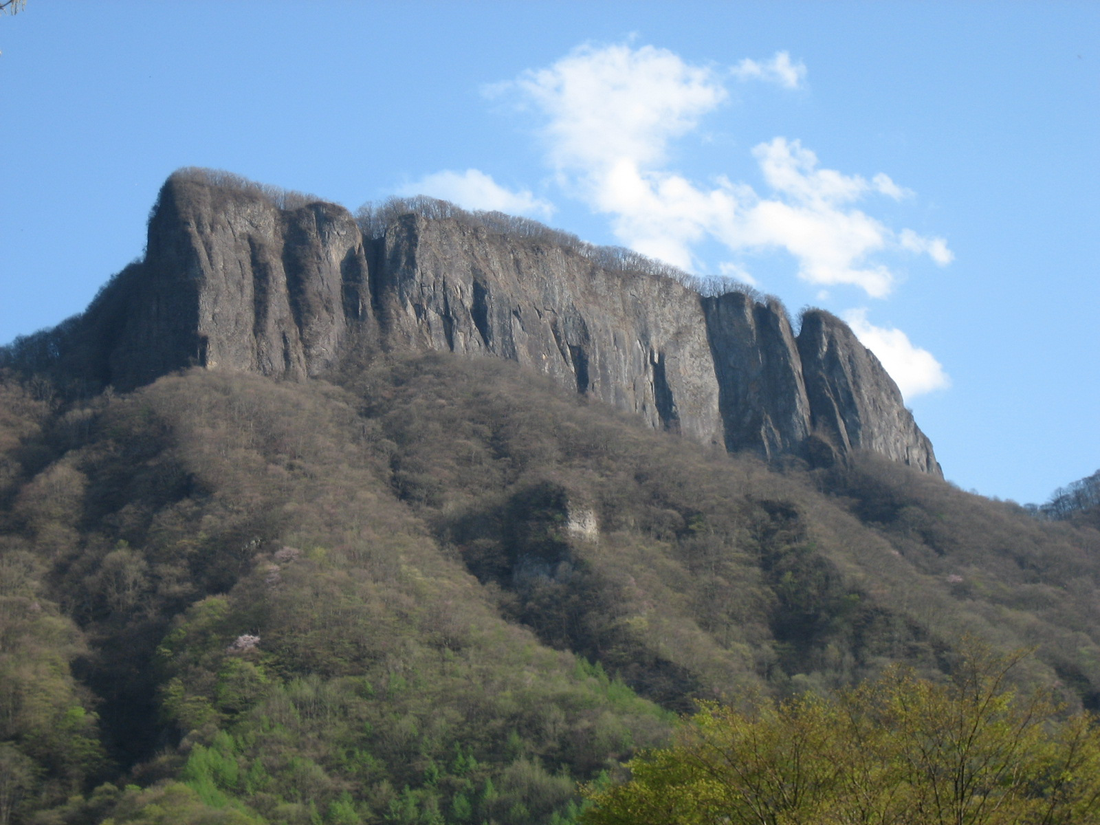 Mount Arafune seen from the north in Honshu, Japan.